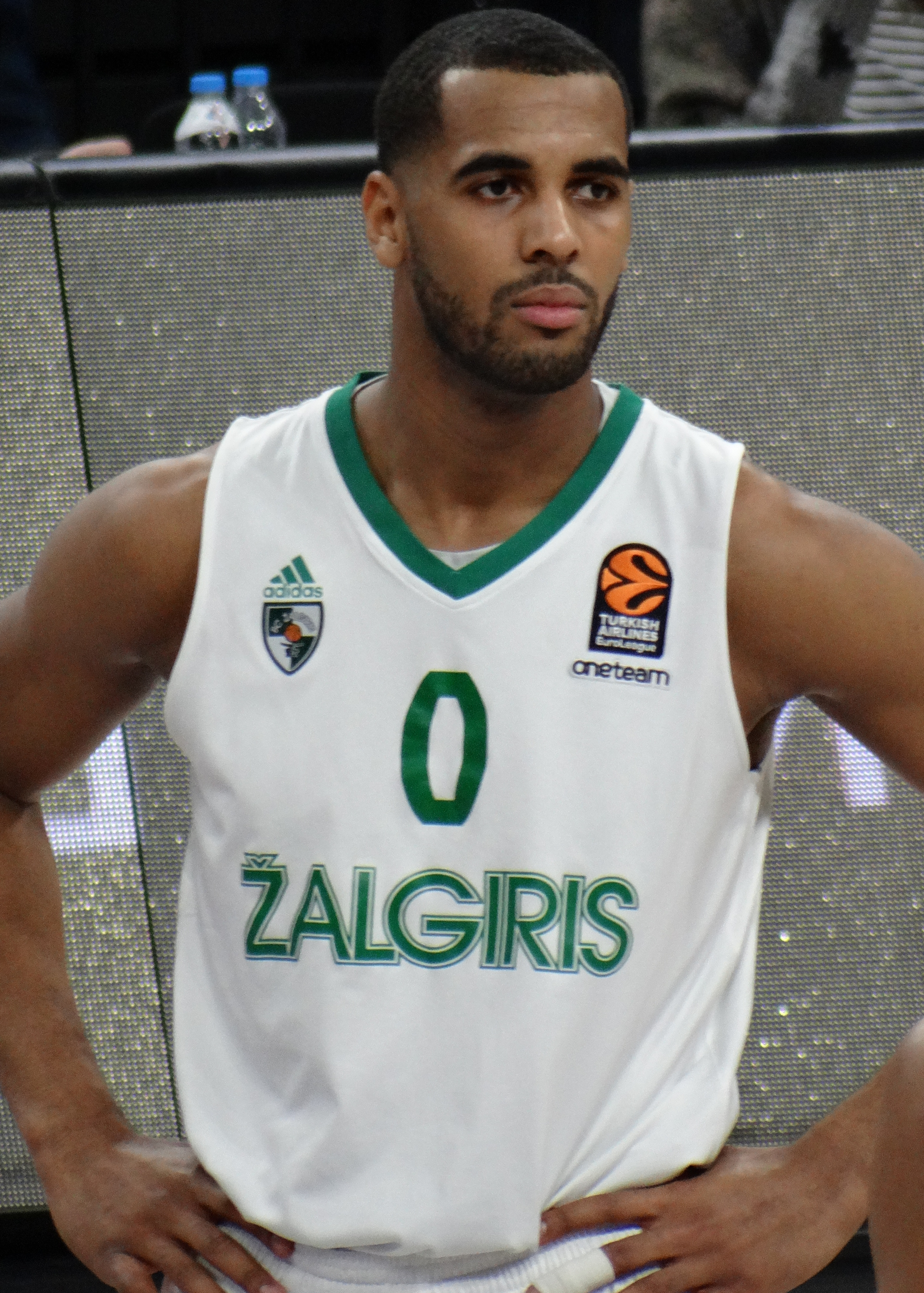 Brandon Davies 0 BC Žalgiris EuroLeague 20180223